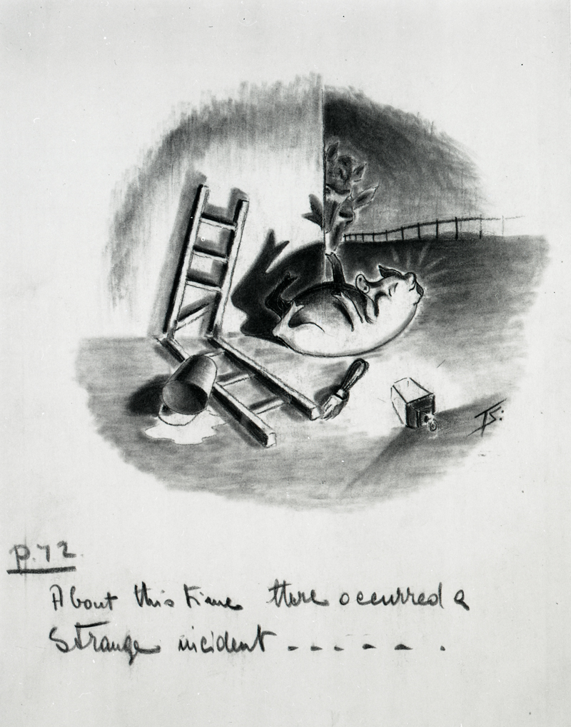 Description: Preliminary drawing for design of Animal Farm strip cartoon. In 1950 the Foreign Office commissioned a strip cartoon version of Animal Farm from the cartoonist Norman Pett and his writing partner Donald Freeman. Various embassies then encouraged overseas newspapers to publish the anti-communist strip. It was translated into a number of languages and also turned into a slide show for public performance. The first installment is also on Flickr Date: 1950 Our Catalogue Reference: FO 1110/319 This image is from the collections of The National Archives. Feel free to share it within the spirit of the Commons. For high quality reproductions of any item from our collection please contact our image library.